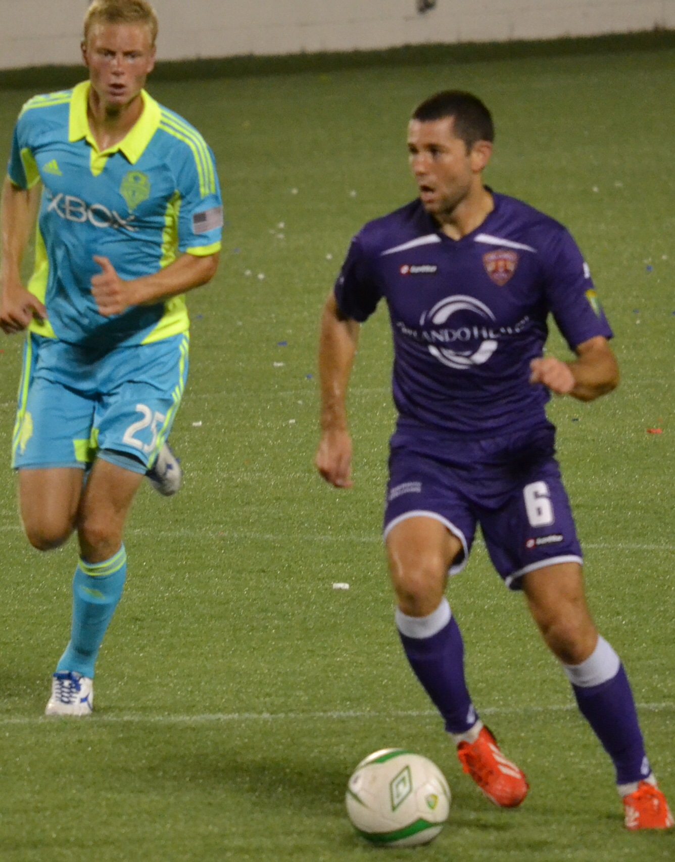 Ant playing against Seattle reserves in USL Pro for the Orlando City Lions